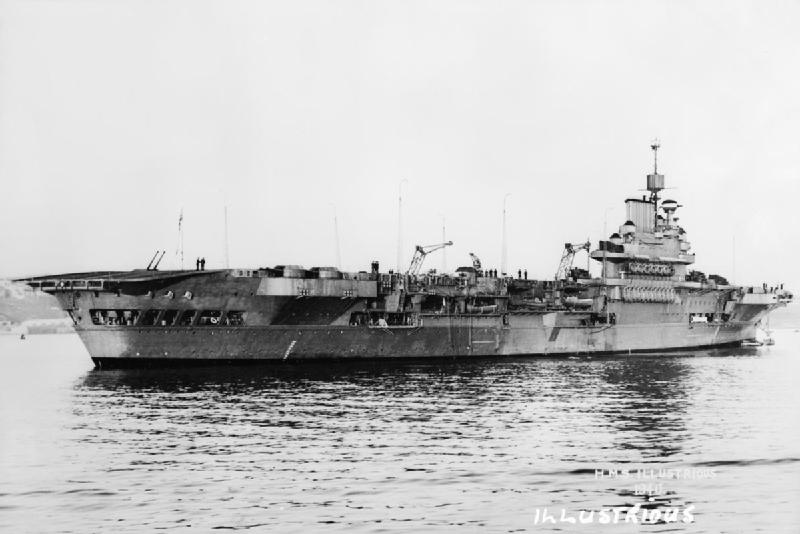 HMS ILLUSTRIOUS, 1940. Underway.